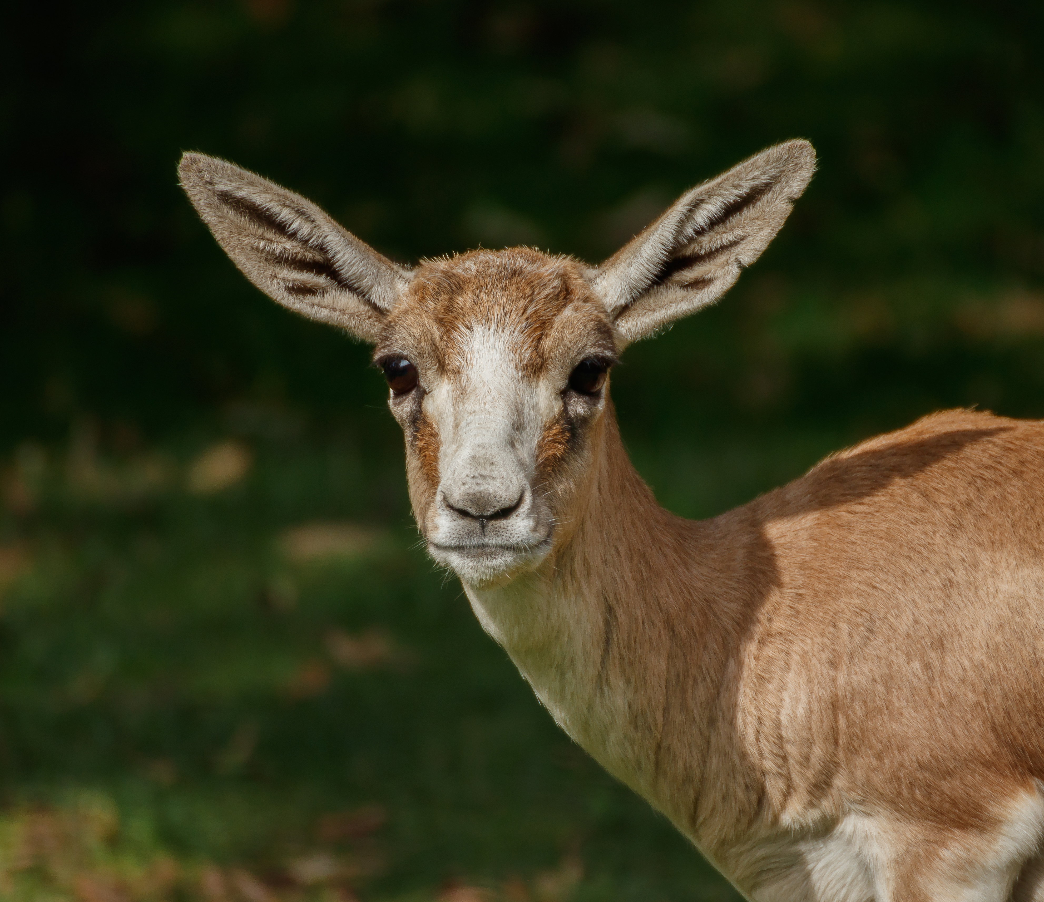 Gazella subgutturosa subgutturosa (Güldenstädt, 1780), Persian gazelle; Karlsruhe Zoo, Karlsruhe, Germany.